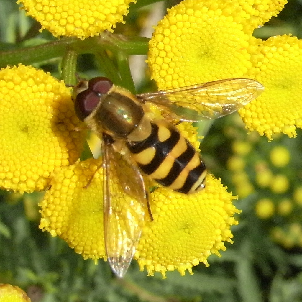 Male Common Banded Hoverfly (Syrphus ribesii).